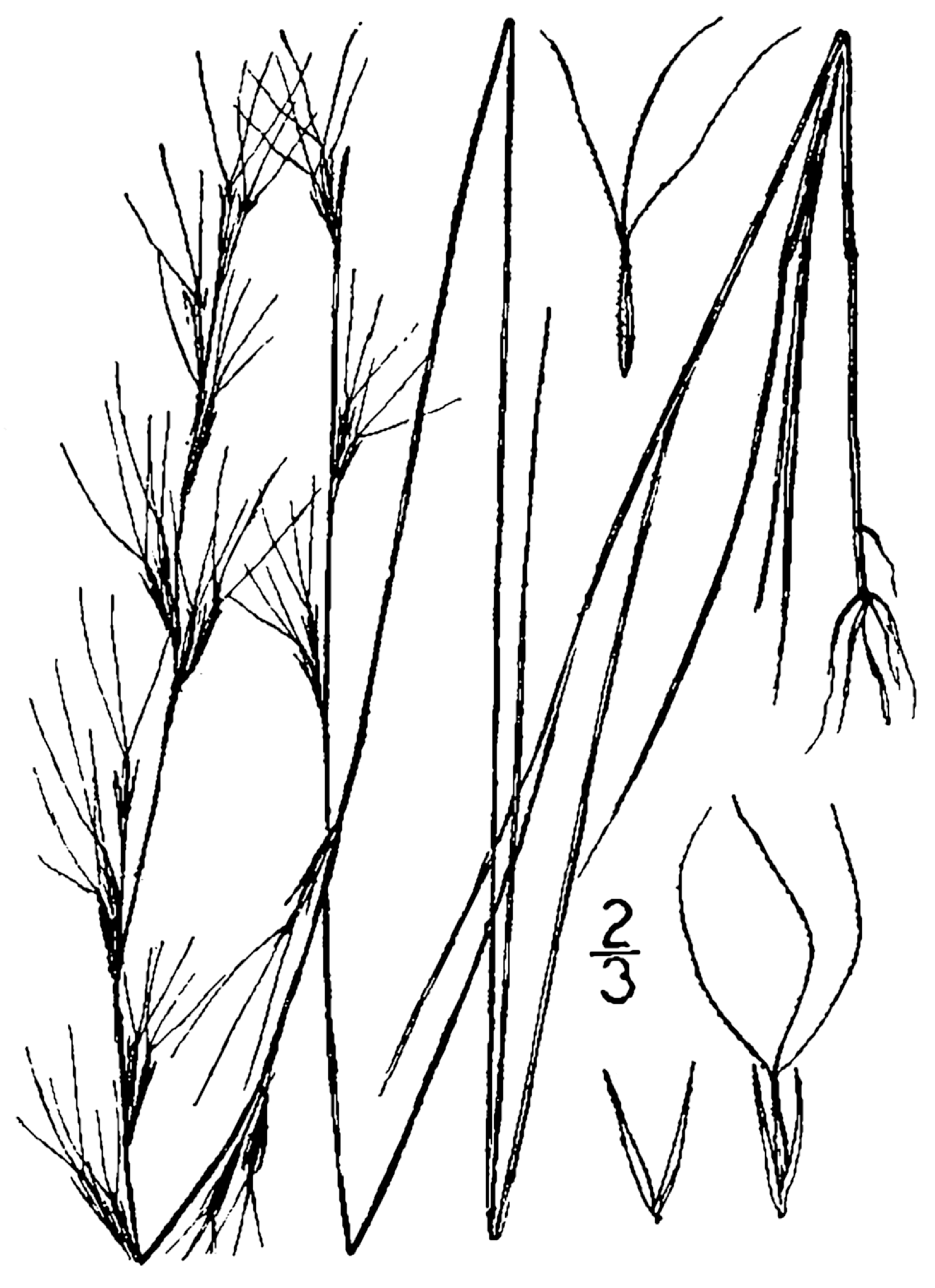 Aristida longespica Poir. var. geniculata (Raf.) Fernald - slimspike threeawn